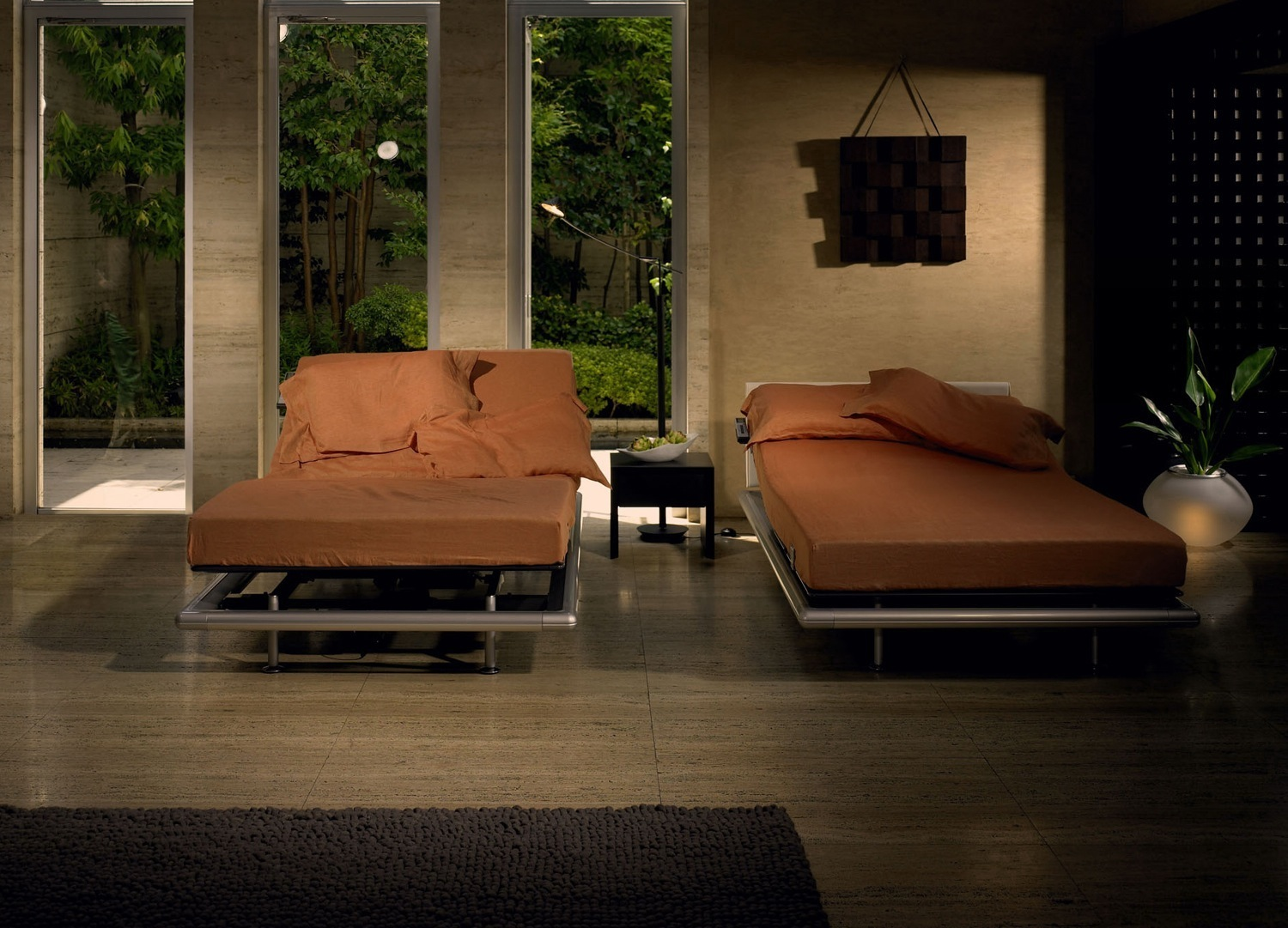 Works of KAWAKAMI Motomi 015-2006